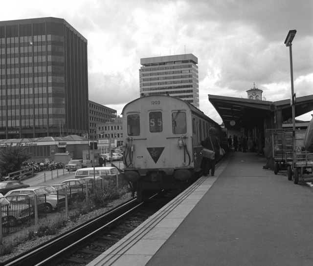 Diesel-electric unit at Reading Returning home by train after a long day's walking and photographing on the River Thames, the long late-spring evening still gave the possibility of another shot of a '3R' or 'Tadpole' unit, on which I would travel to Redhill. This time the narrow end of the unit is towards the camera with the motor car leading.